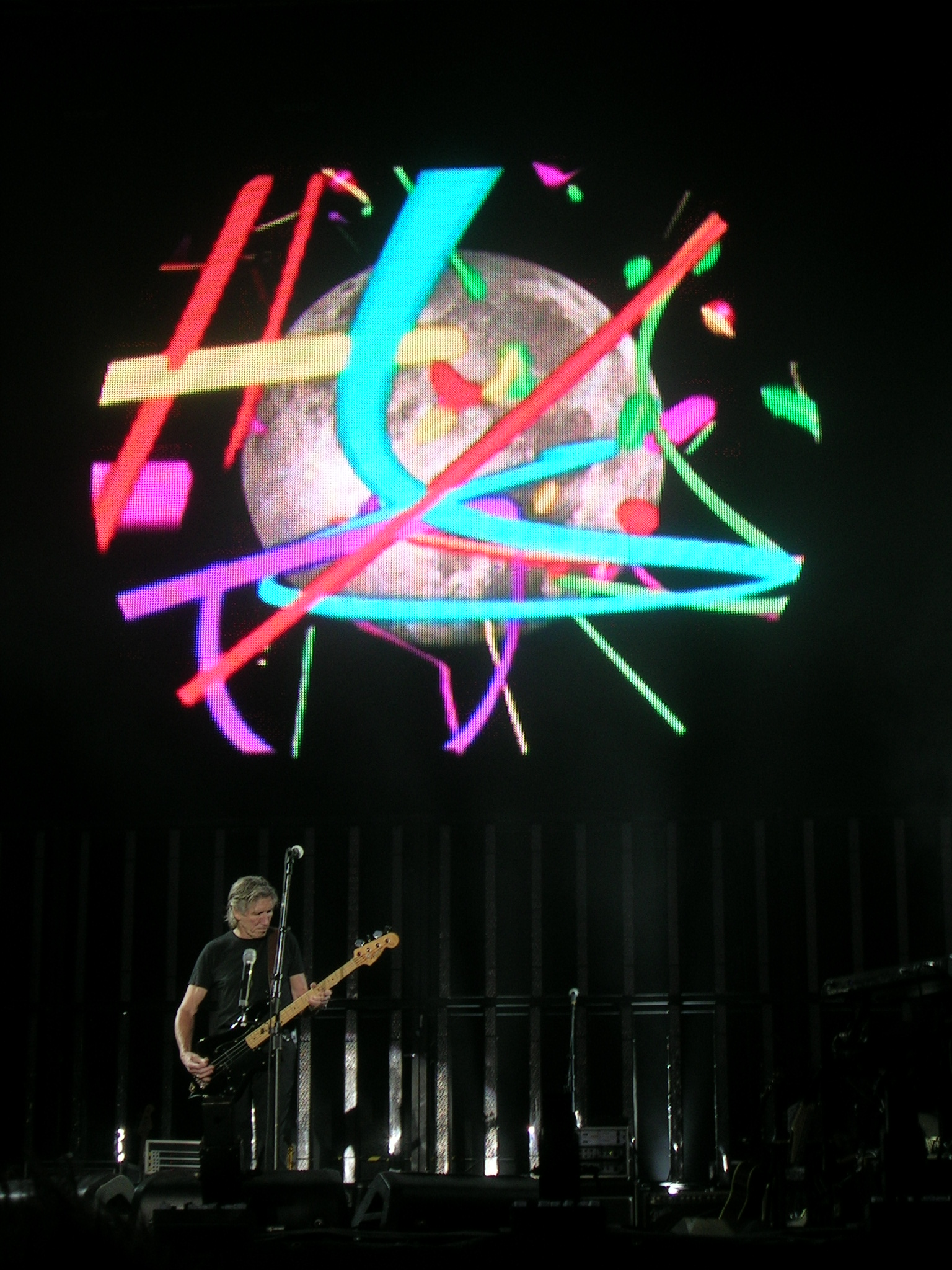 Roger Waters playing "Have a Cigar" on the "Dark Side of the Moon live" tour in Viking Stadion, Stavanger, Norway.